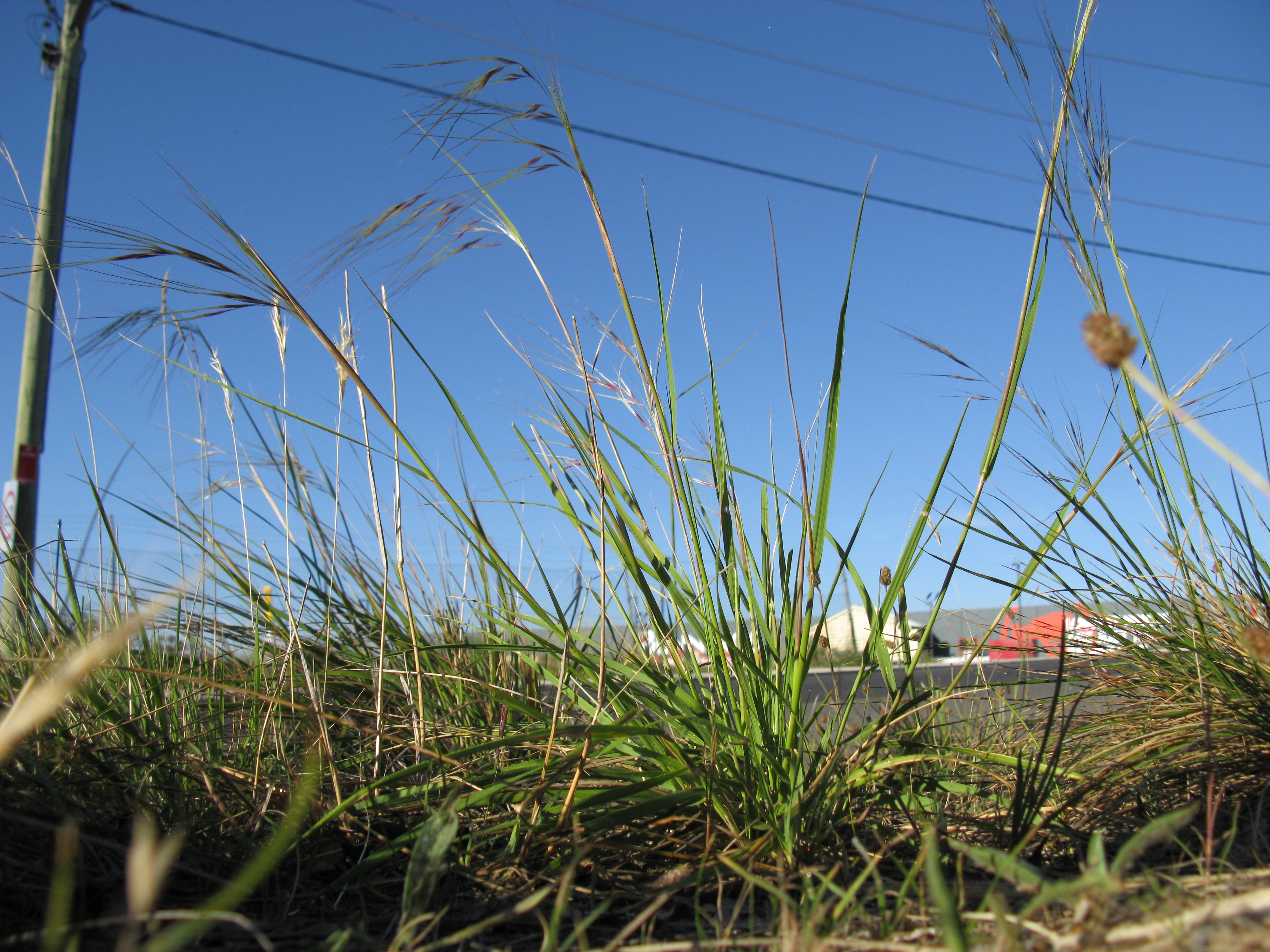 Introduced, cool-season, perennial, tufted grass to 80 cm tall. Stem nodes are covered in short hairs. Leaves are to 5 mm wide, with a strongly ribbed and hairy upper surface. Flowerheads are contracted to loosely open panicles to 40 cm long. Spikelets are 1-flowered and have 2 purplish glumes. Lemmas (6-10 mm long) are hairy in the lower half and have a ring of tissue (corona) at the base of the 4-9 cm long, bent and twisted awn. Spikelets are also formed at the base of the plant and at nodes along the flowering stems. Flowers in spring and early summer. A native of South America, it is found on roadsides and in native and sown pastures. Occurs on most soil types, but prefers more fertile soils. A Weed of National Significance, it is highly invasive and produces large persistent seed banks. Its seeds injure stock and downgrade wool, skins and hides. A palatable and reasonable quality feed in winter, but is low quality when flowering. Stocking rates can be reduced by up to 50% during summer. Managed with a combination of methods: fodder and stock hygiene, grazing management, physical removal, pasture sowing and registered herbicides.